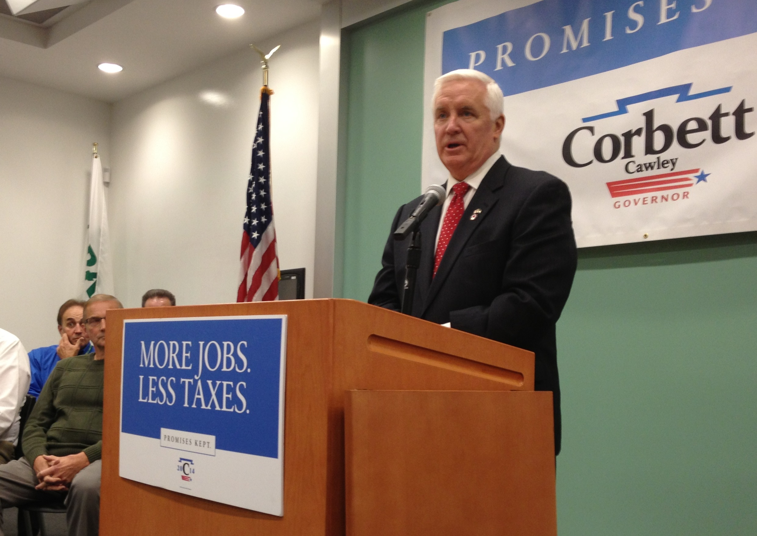 Pennsylvania Governor Tom Corbett at the B. Braun Melsungen facility in Allentown, Pennsylvania during his re-election campaign tour on November 8, 2013.